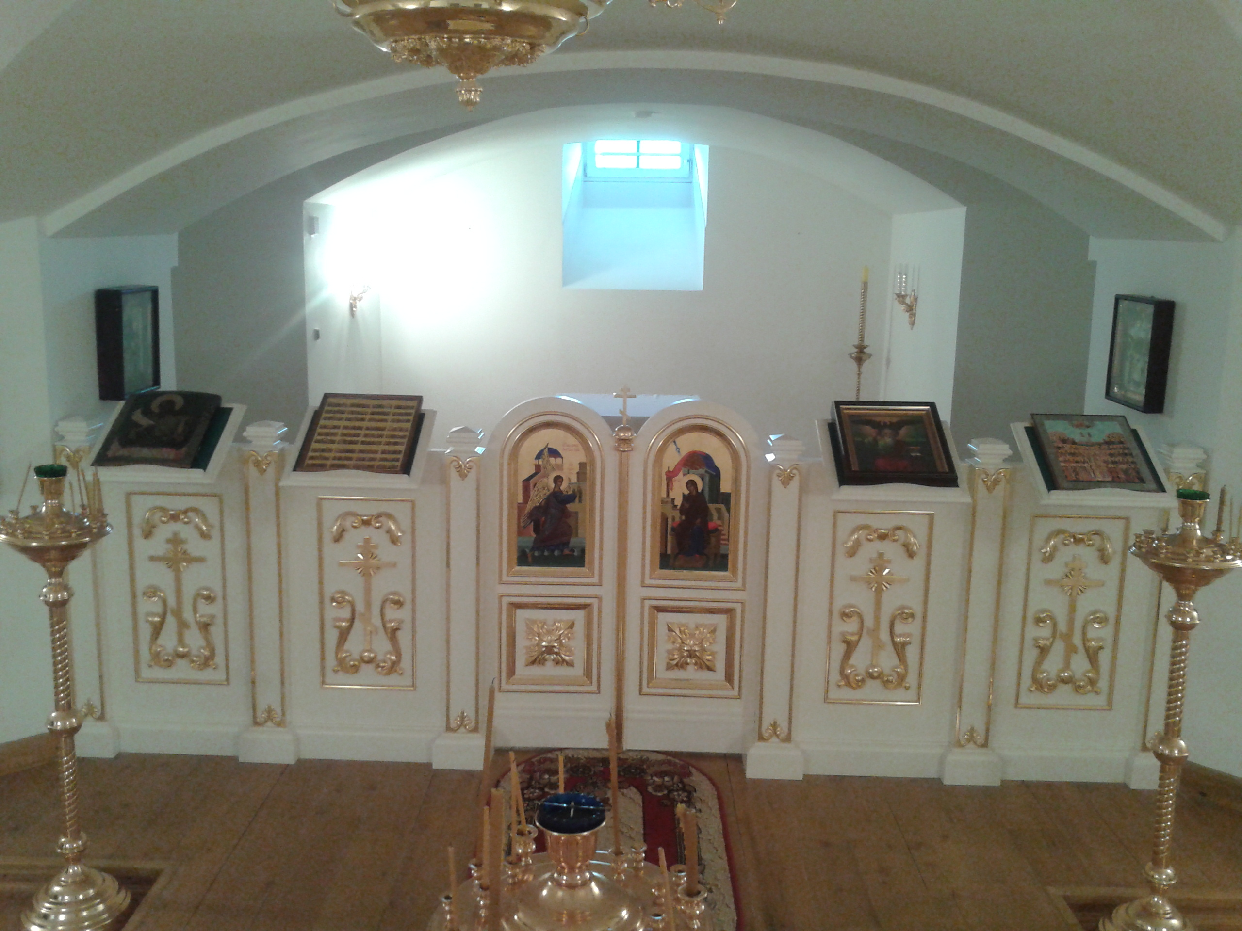 The lower church of Nativity (Pogi)